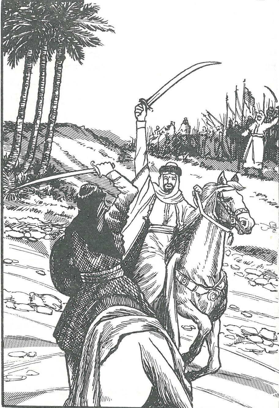 Hamza ibn ‘Abd al-Muttalib fights Shaybah ibn Rabi'ah prior to the Battle of Badr.